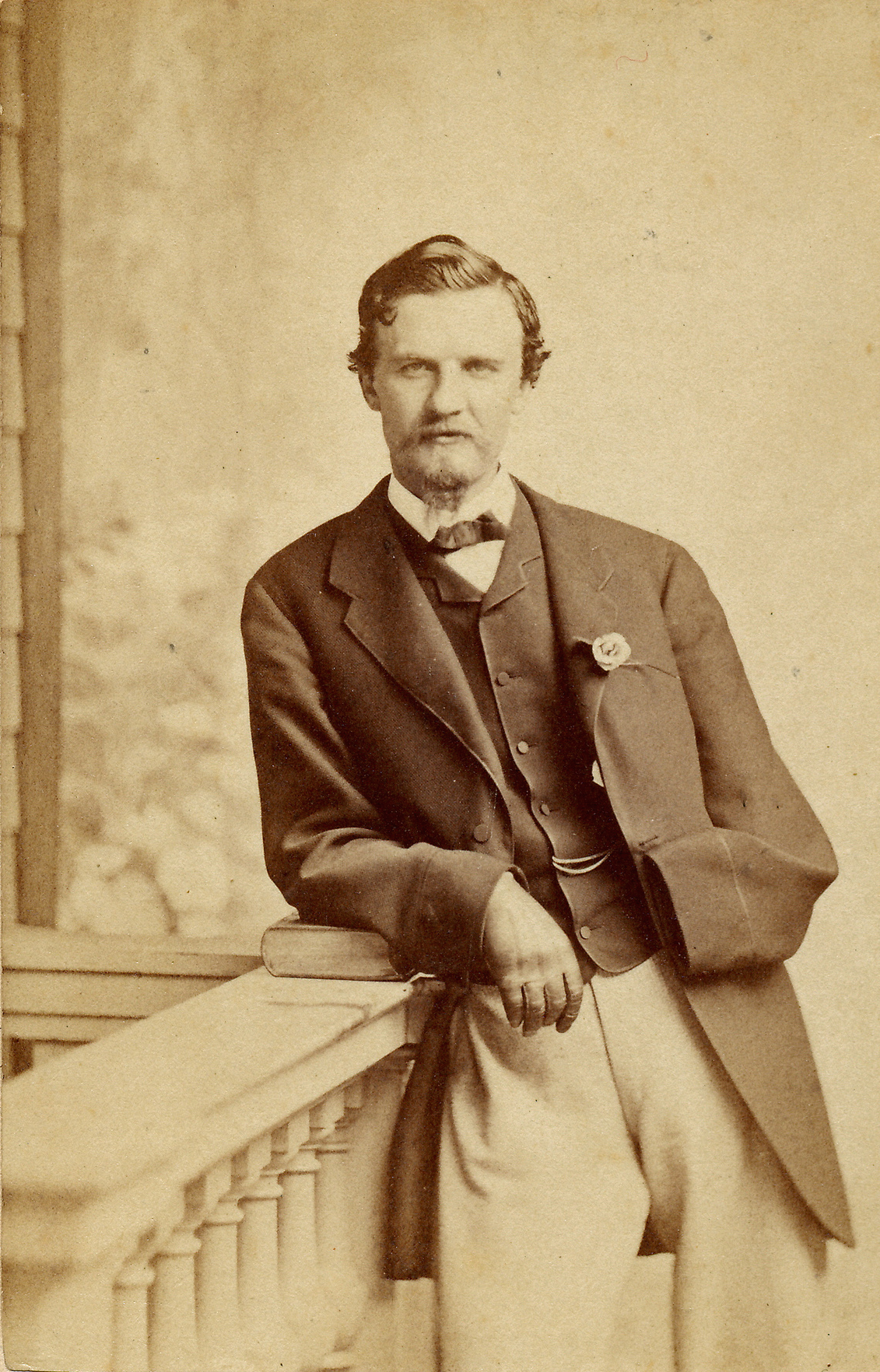 Gen. Albert Gallatin Lawrence (1836–1887), photographed by John Adams Whipple (1822–1891)